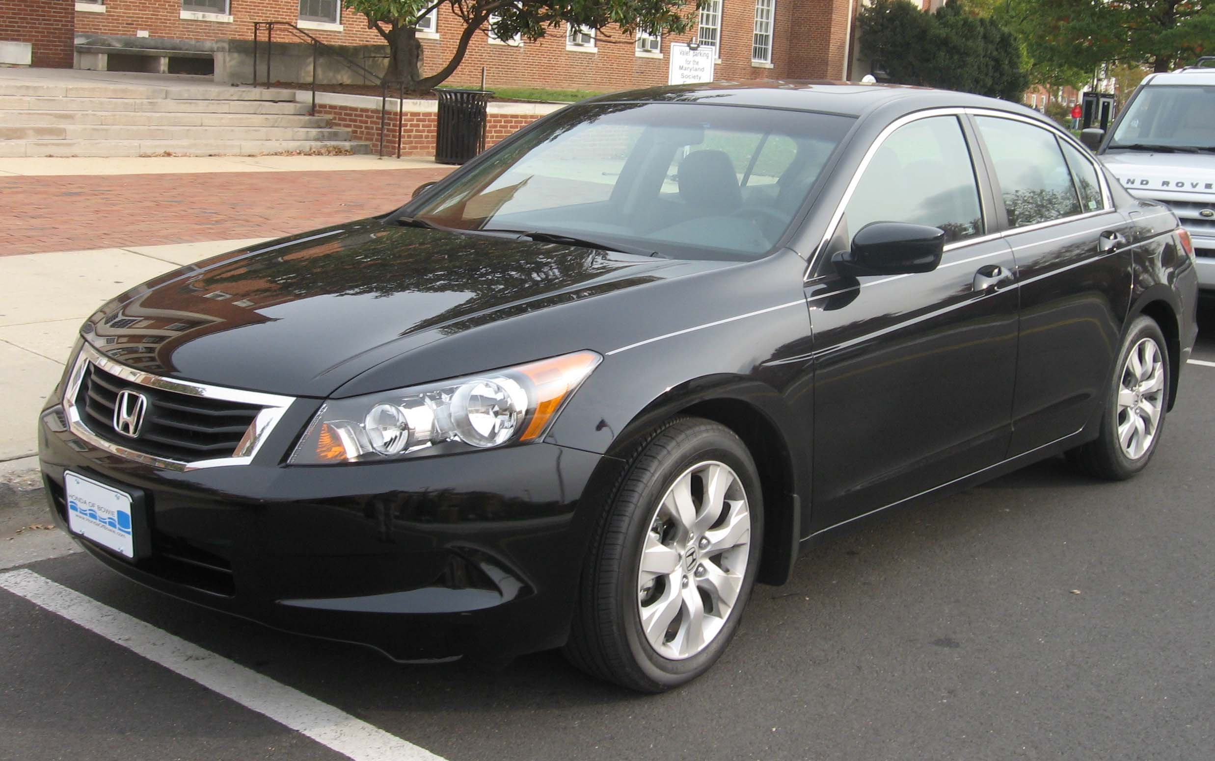 2008 Honda Accord photographed in College Park, Maryland, USA.